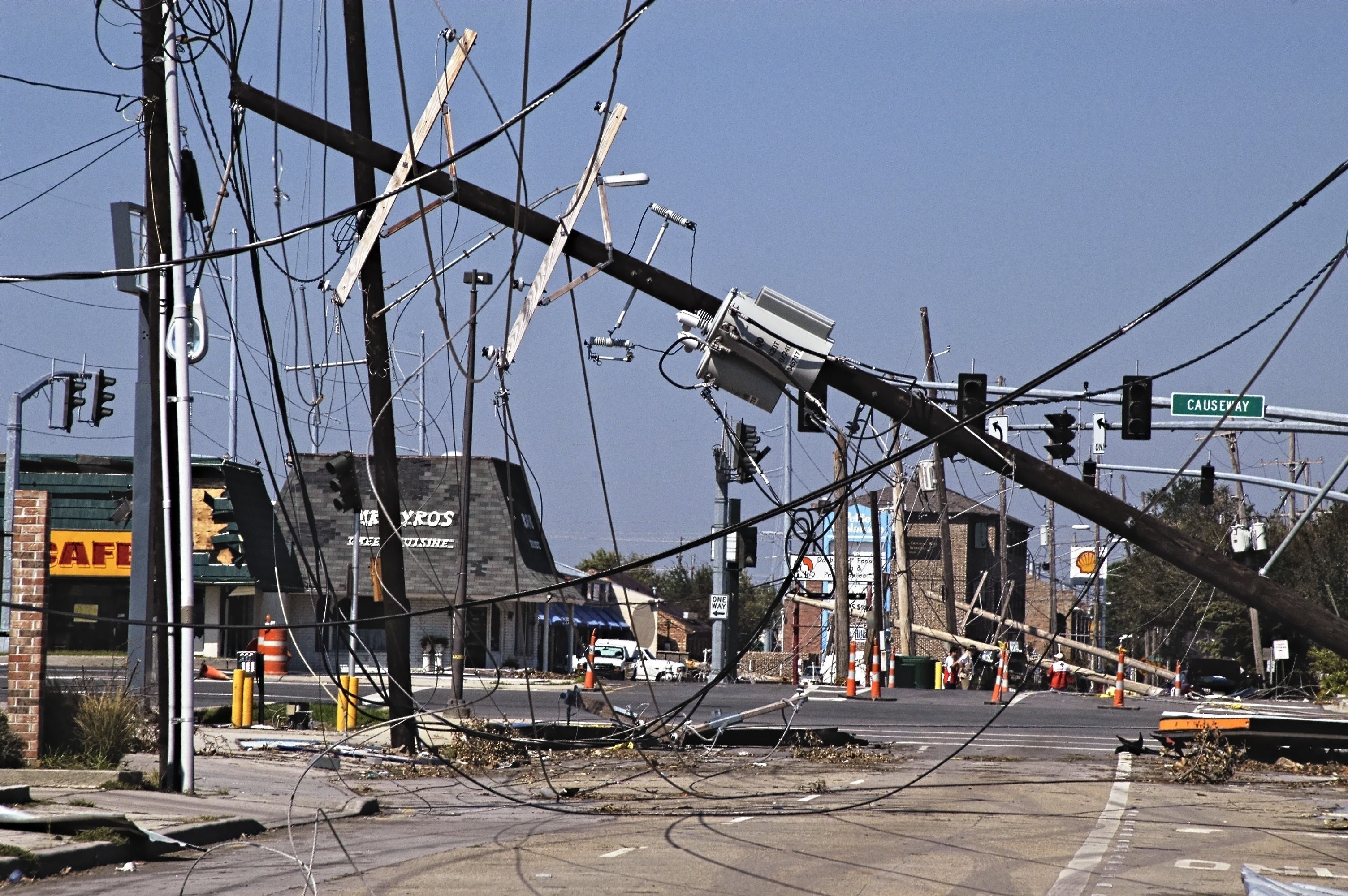 Metairie, LA 9/8/05 -- Ten days after Hurricane Katrina, there are still huge areas throughout 3 states that have not been addressed by clean up crews. Downed wires pose serious safety hazards. Photo by: Liz Roll